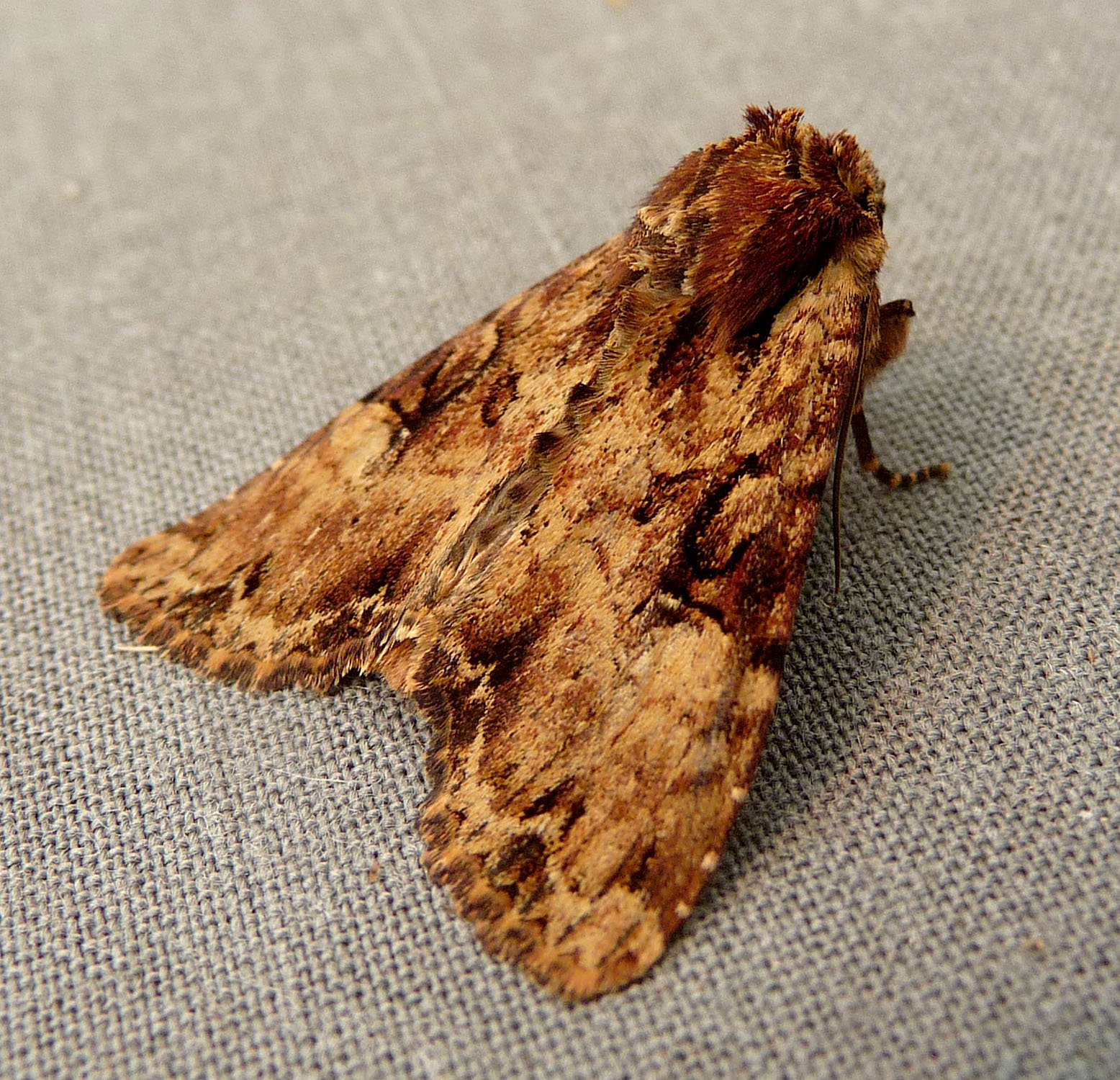 Clouded Brindle. Apamea epomidion, Cradley, England